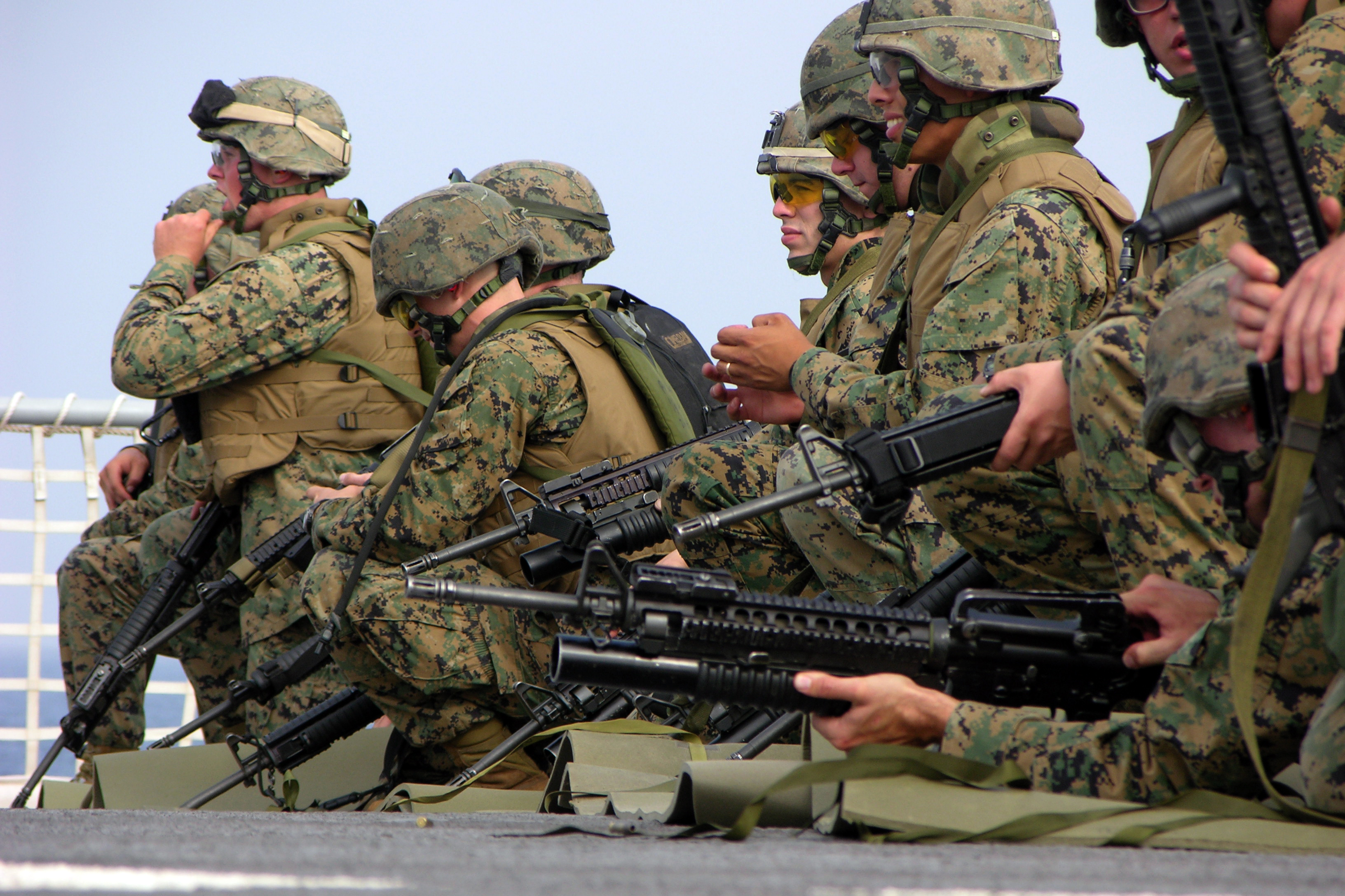 Guinea (Oct. 7, 2005) – U.S. Marines assigned to 2d Platoon, Company C, 1st Battalion, 8th Marine Regiment, take a look at their targets following marksmanship training aboard the dock landing ship USS Gunston Hall (LSD 44). The embarked Marines are participating in the Western Africa Training Cruise 06. Operating from Gunston Hall, the Marines will be involved with training exercises in three western Africa countries along with NATO military allies from Italy and Spain. Various exercises are scheduled to take place in Guinea, Ghana and Senegal to increase interoperability between those involved as well as enhancing security and stability in the region. U.S. Marine Corps photo by Gunnery Sgt. Joseph Lomangino (RELEASED)